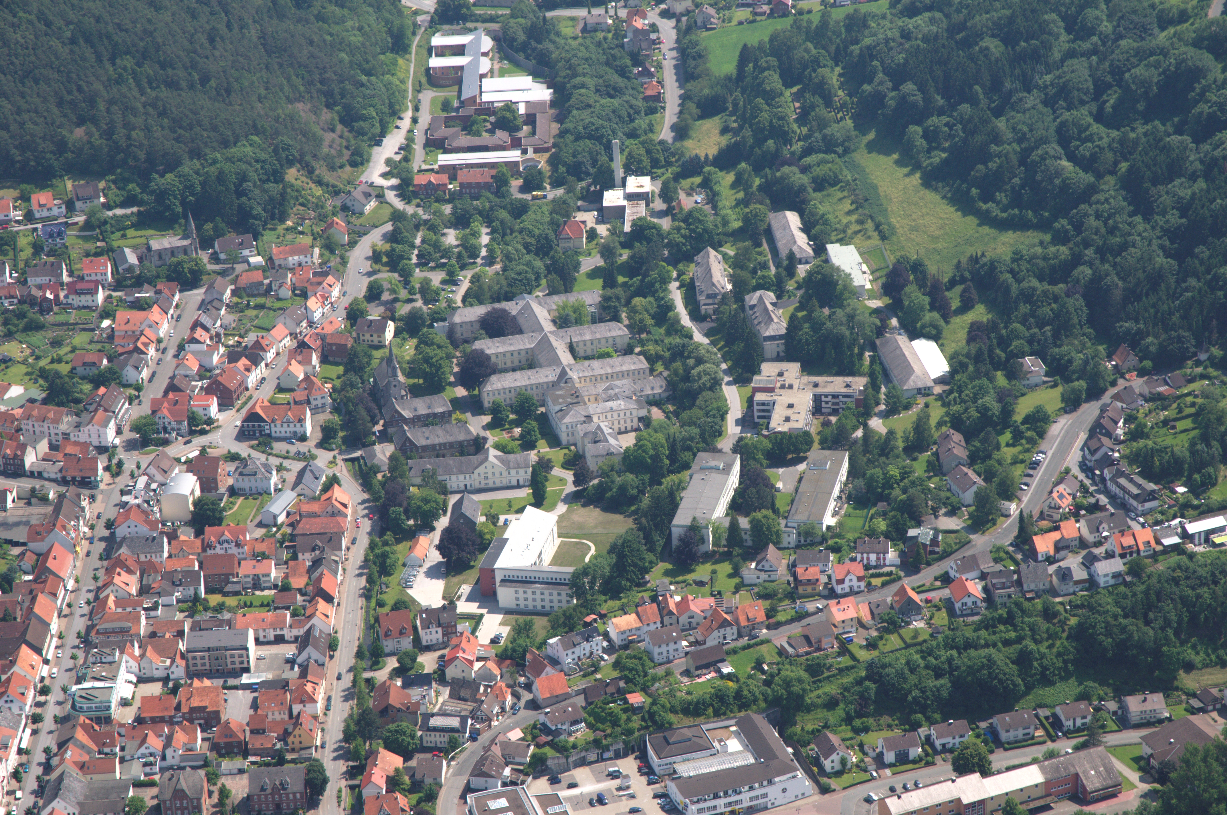 Fotoflug Sauerland-Ost - Niedermarsberg Innenstadt mit LWL-Klinik The making of this document was supported by the Community-Budget of Wikimedia Germany.